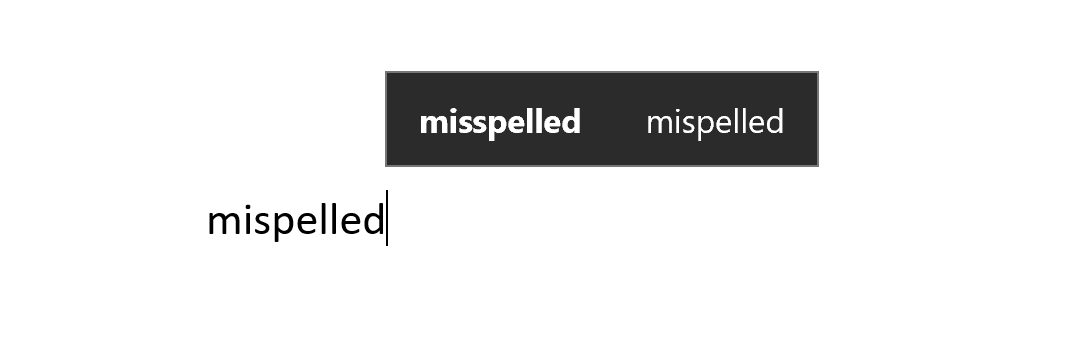 Windows 10 suggesting a correction for the word "misspelled".